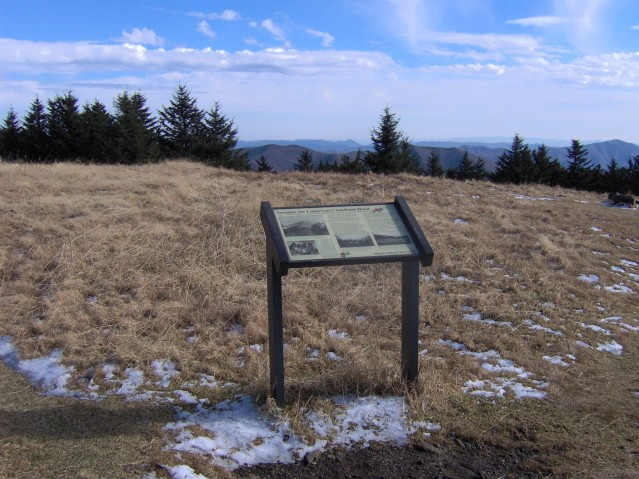 The site of the Cloudland Hotel (ca. 1885-1912) at Tollhouse Gap in the Roan Highlands, on the Tennessee-North Carolina border. The sign recalls the hotel's brief history.